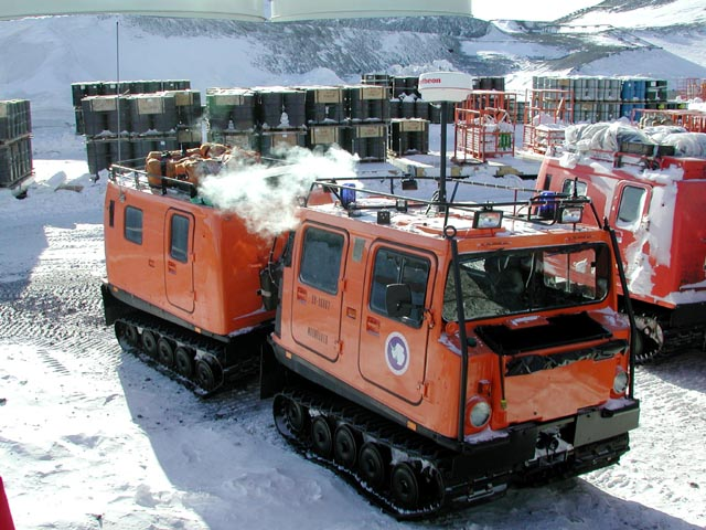 A Hagglund BV206 parked at McMurdo Station on Ross Island in Antarctica.